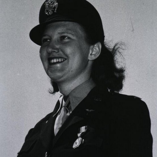 LT. Edith Greenwood